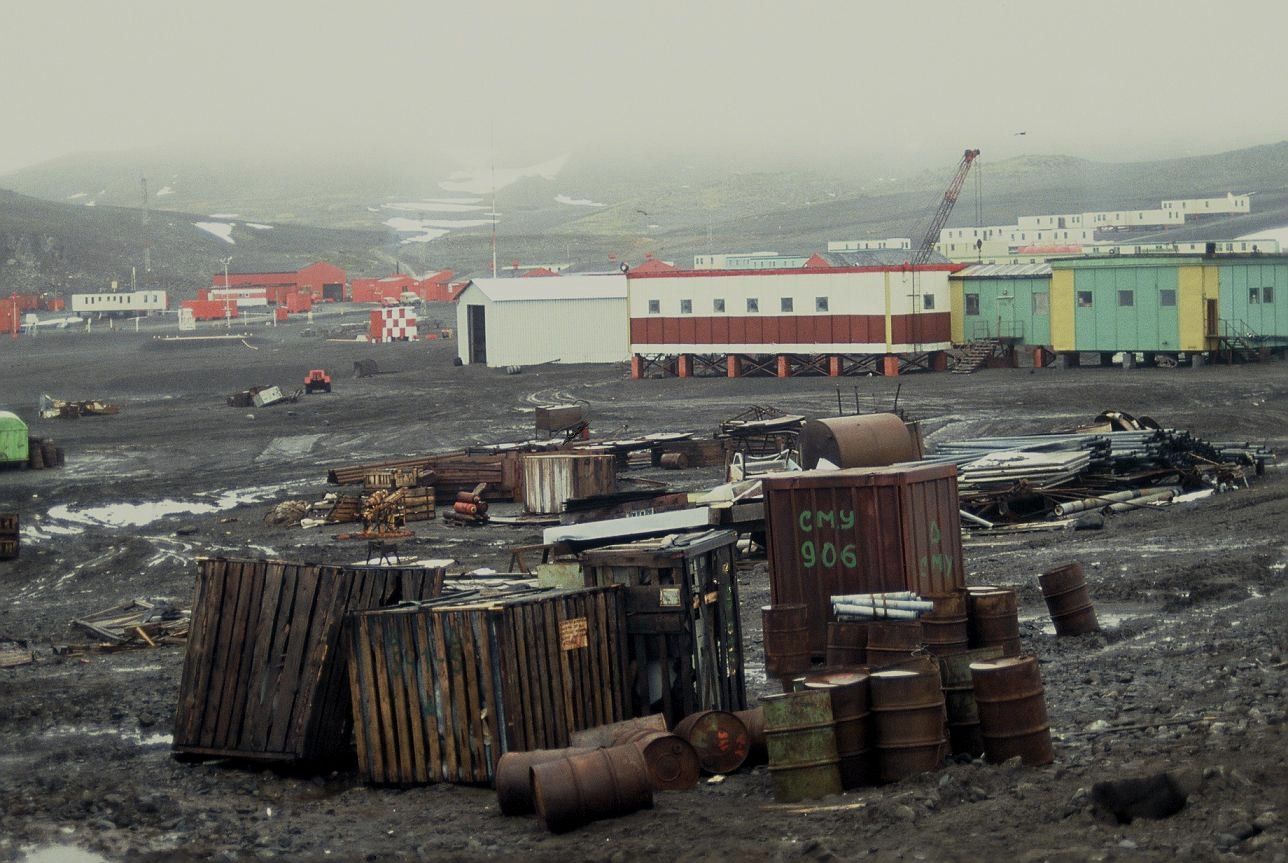 Open air storage of (discarded?) equipment at Bellingshausen, a Russian Antarctic base on King George Island. The more distant buildings belong to the Chilean base Eduardo Frei.